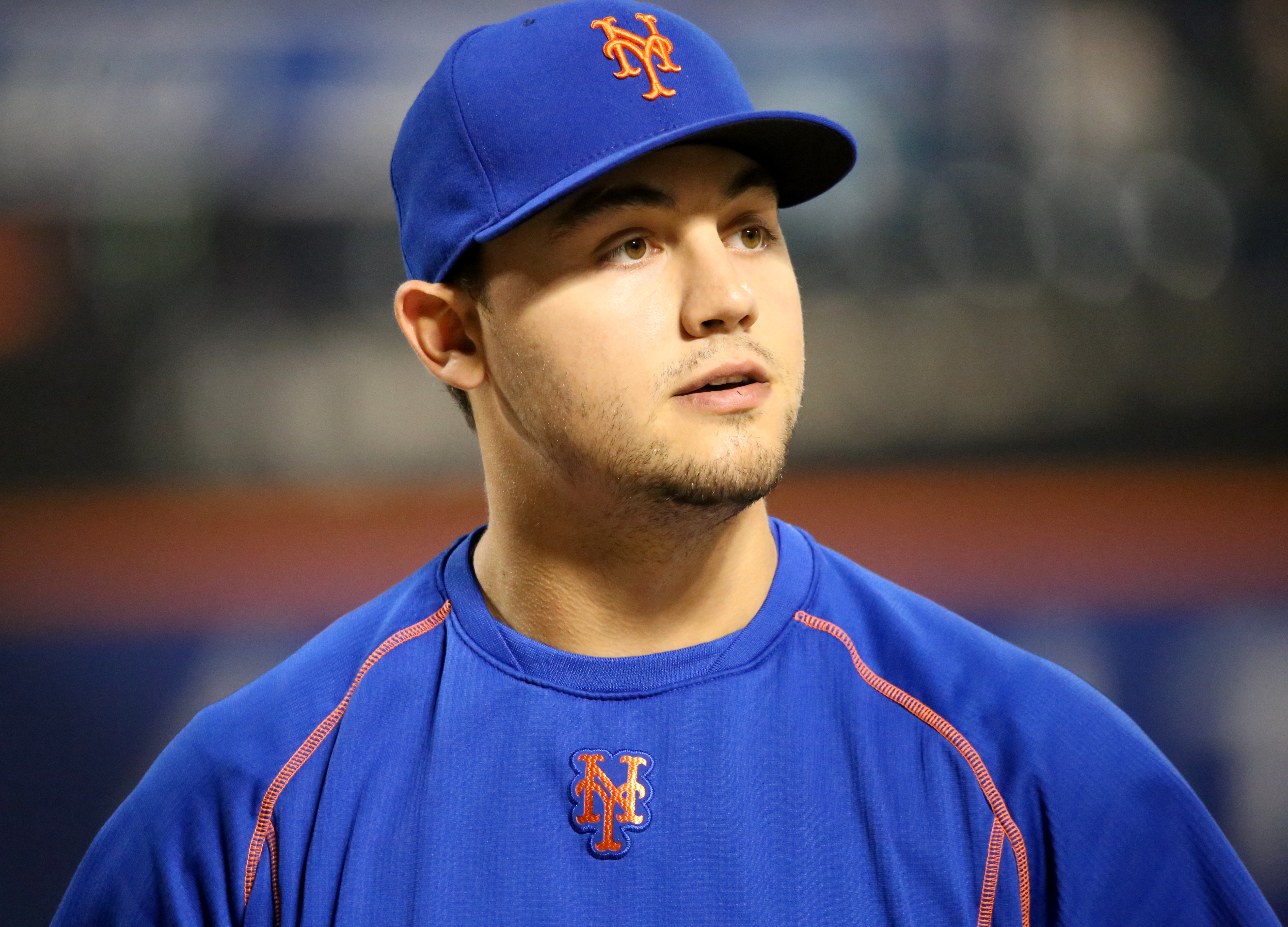 Michael Conforto looks on during batting practice.